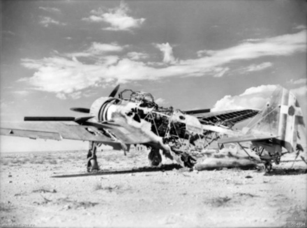 A wrecked Italian fighter (Breda Ba.65) on an airfield between Capuzzo and Bardia in Libya, 1940.